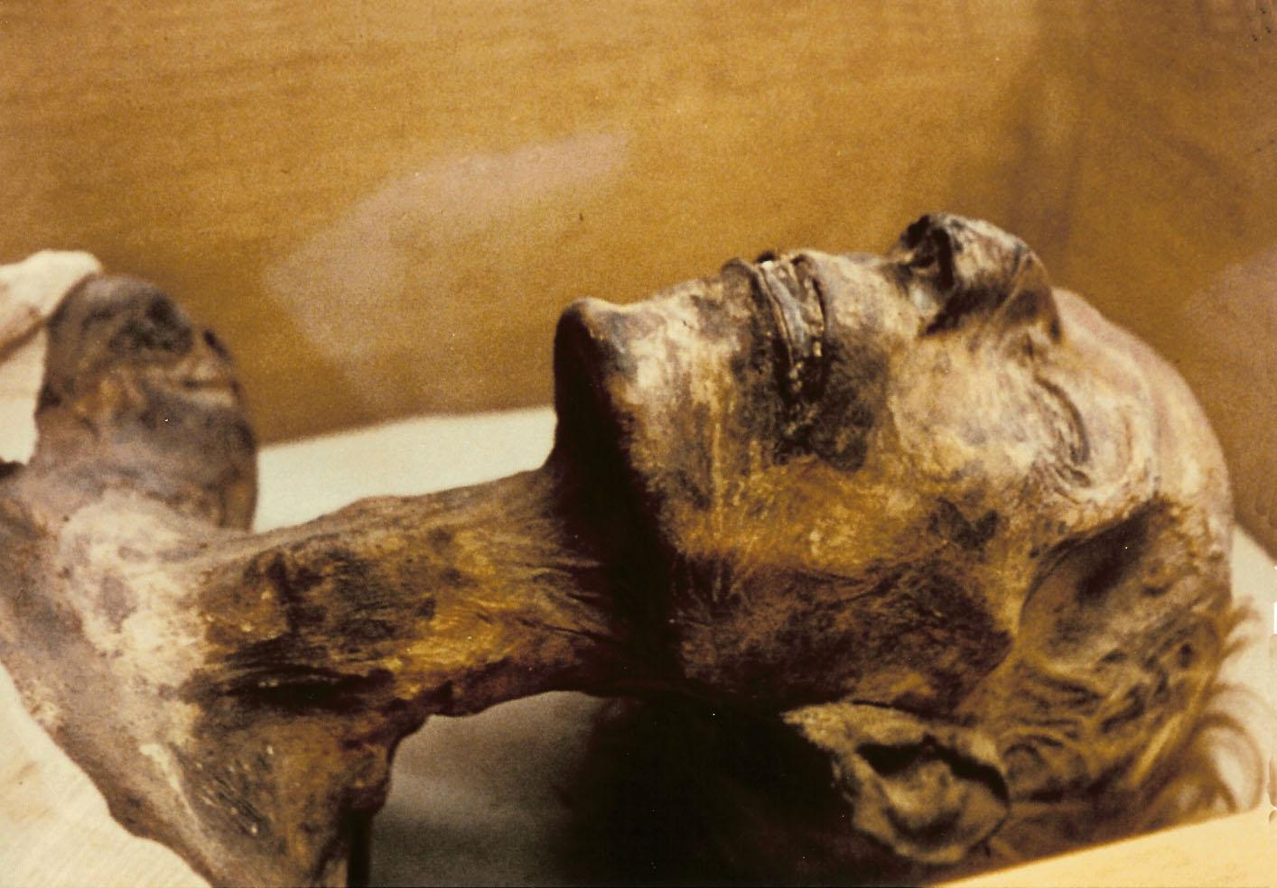 Mummy of 19th dynasty King Rameses II.